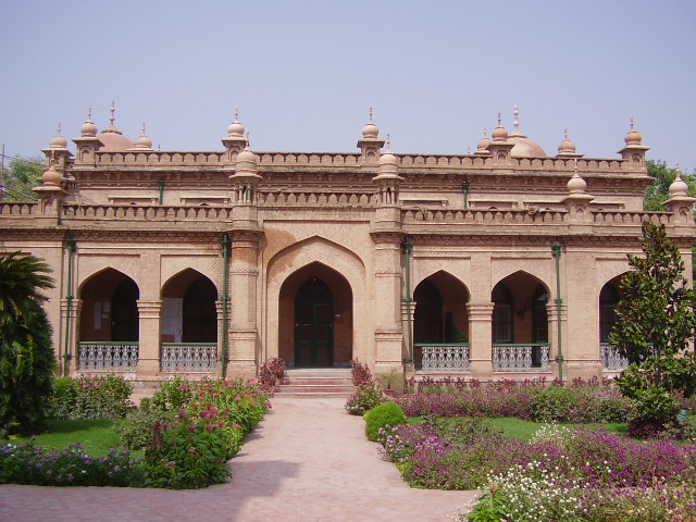 Admn office in Islamia college Peshawar